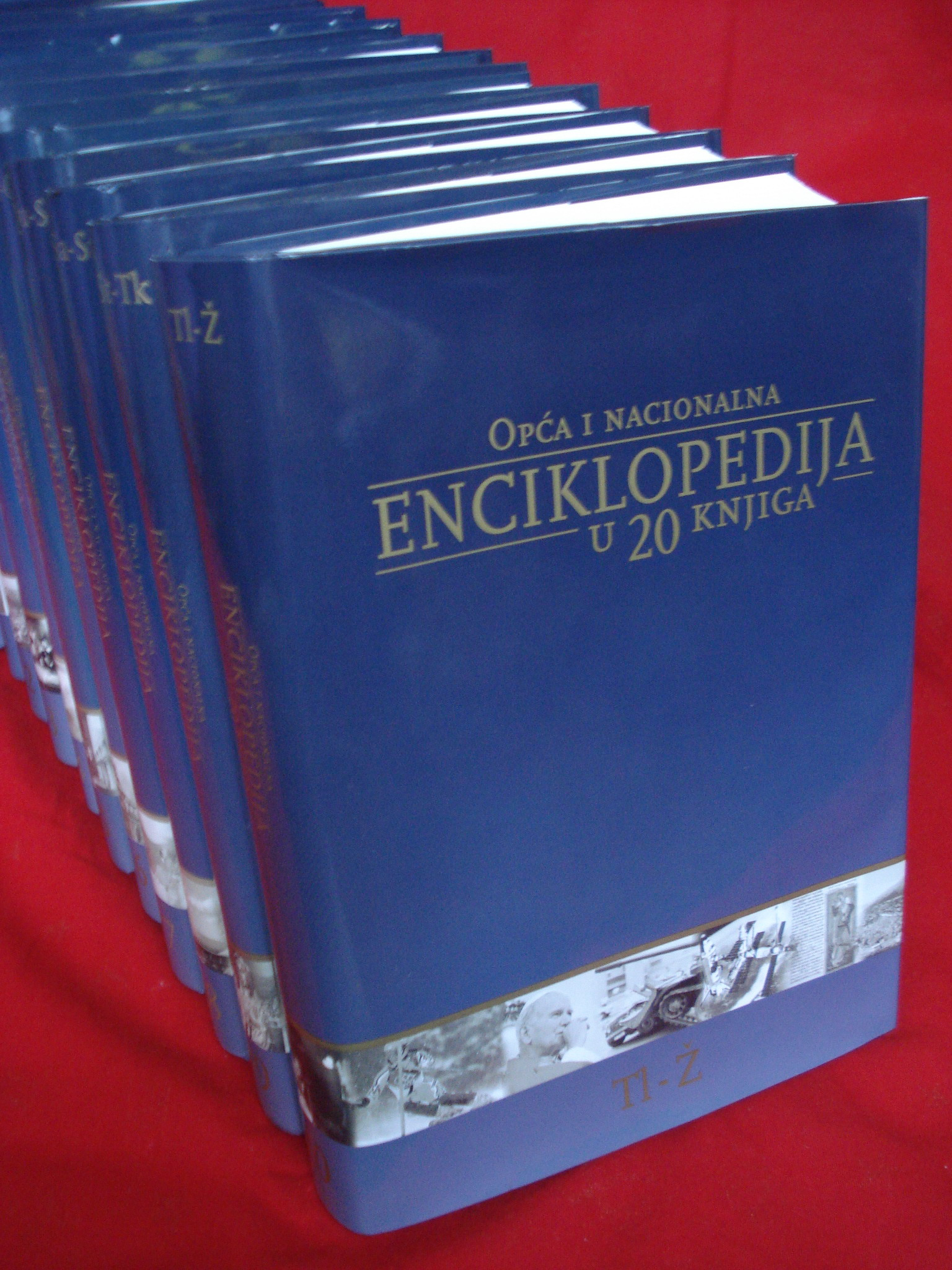 General and national encyklopaedia in 20 books; Publisher: "Miroslav Krleža Institute of Lexicography", Zagreb, Croatia